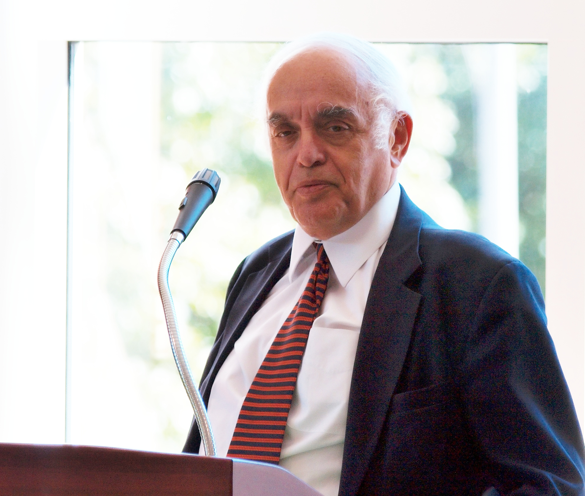 Robert Novak talking about his memoir book "Prince of Darkness, 50 years reporting in Washington" at the Illini Union Bookstore in Champaign, Illinois. This version is lightened to make the subject's face more visible.